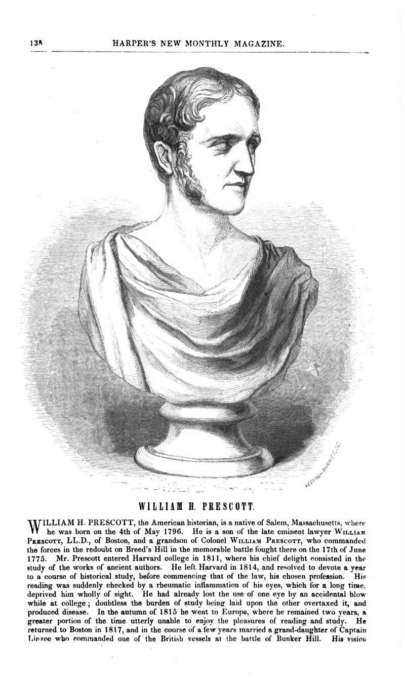 Portrait of William Prescott